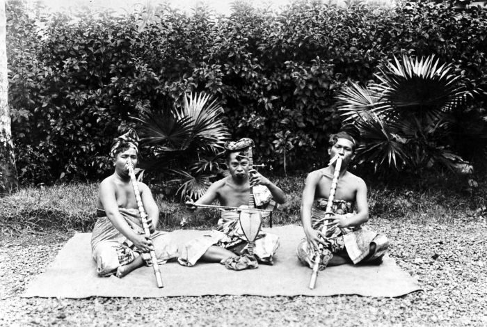 Portrait of suling and rebab players